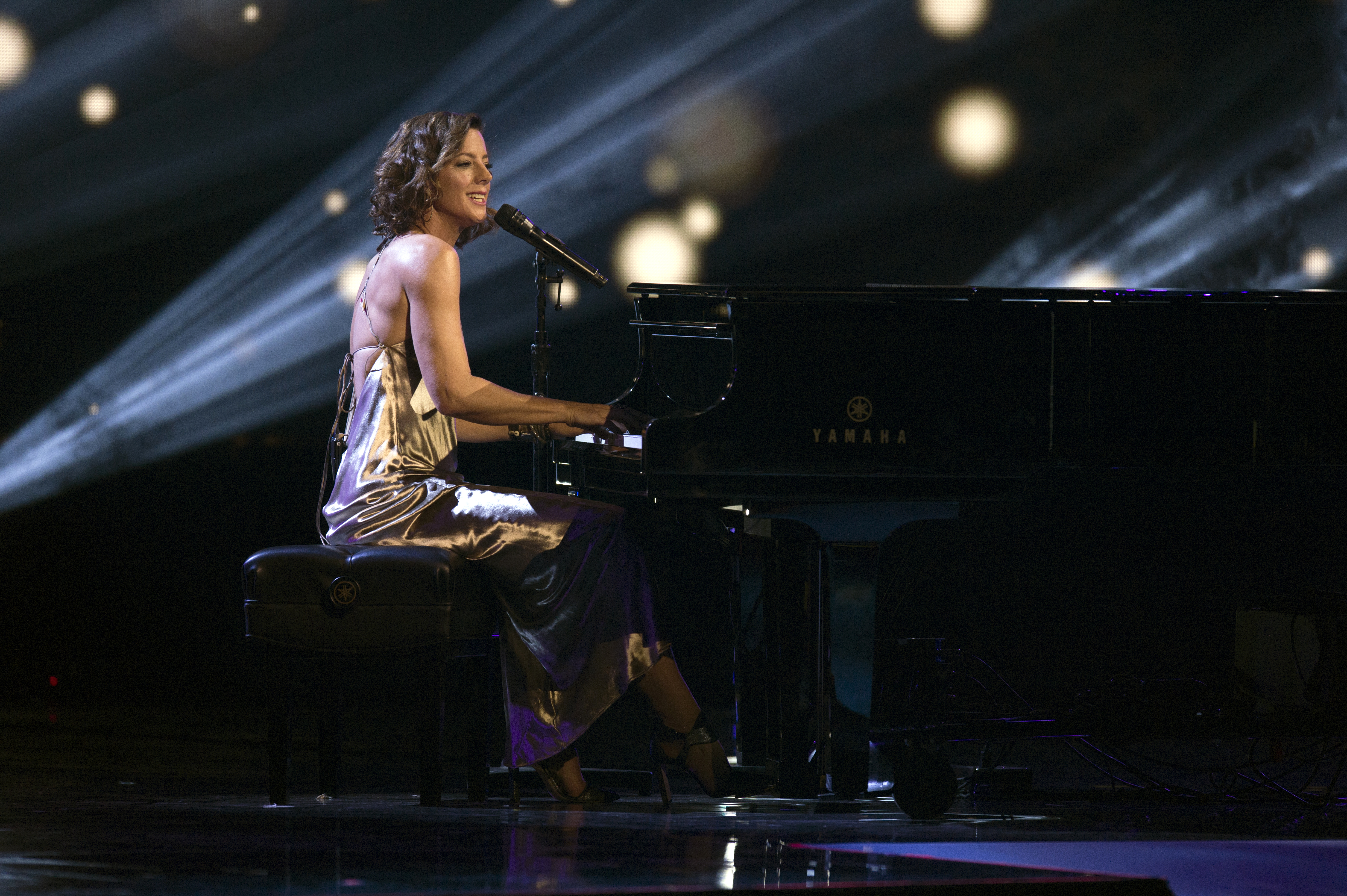 Recording artist Sarah McLachlan plays the 2017 Invictus Games opening ceremonies in Toronto, Canada Sept. 23, 2017. (DoD photo by EJ Hersom)